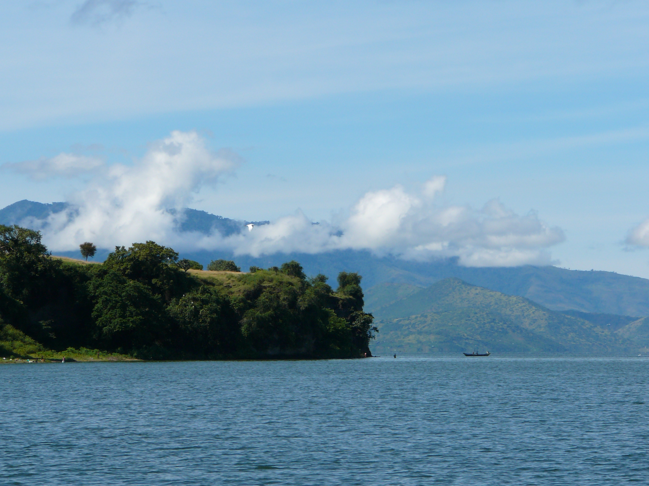 Rusinga Island, Lake Victoria, Kenya